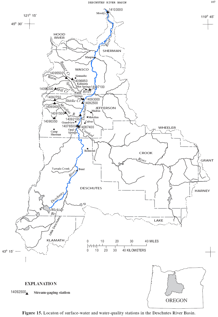 Diagram of the Deschutes River, and its watershed—drainage basin, in western Oregon.